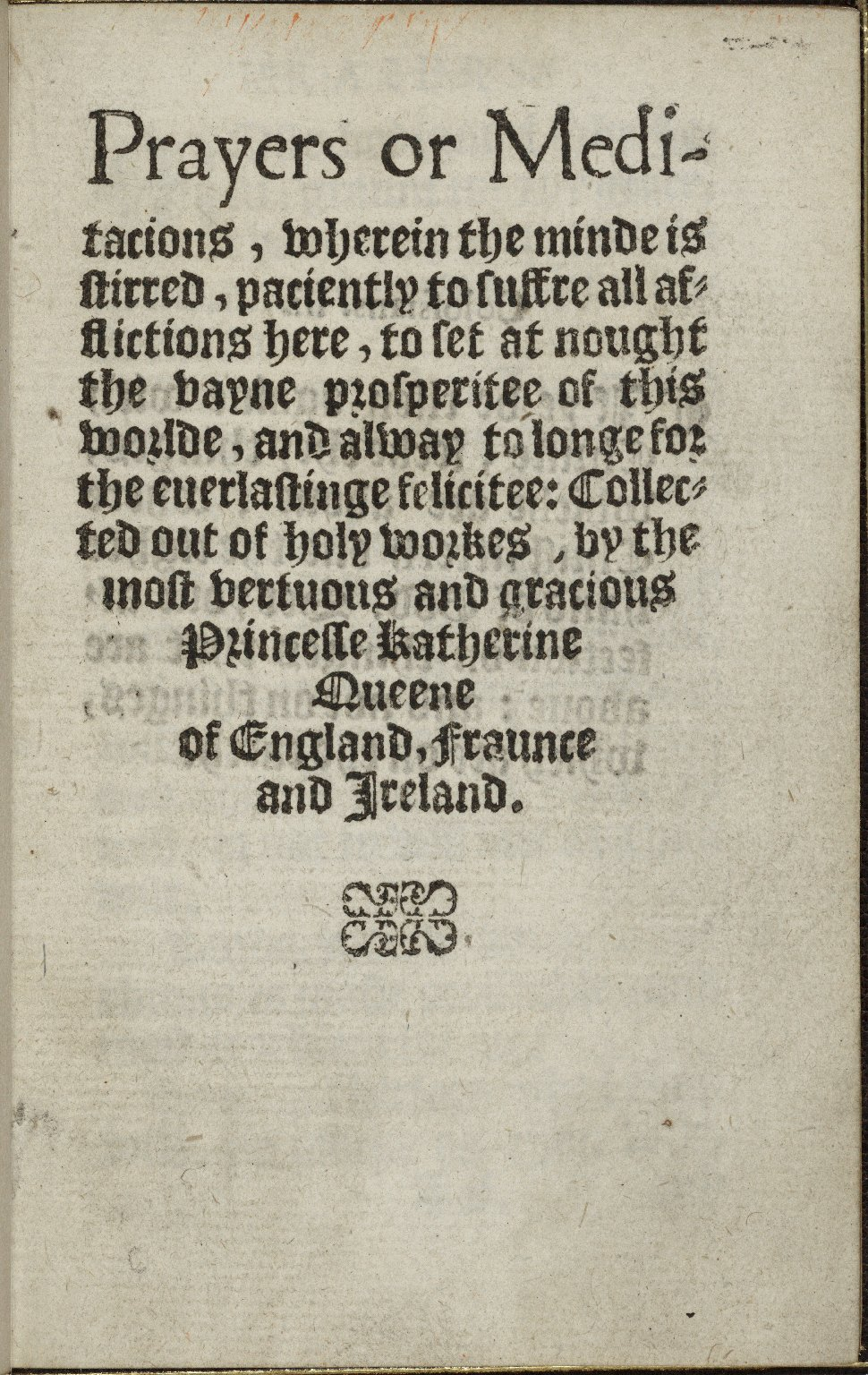 The title page of Katherine Parr's Prayers or meditacions, 1550.